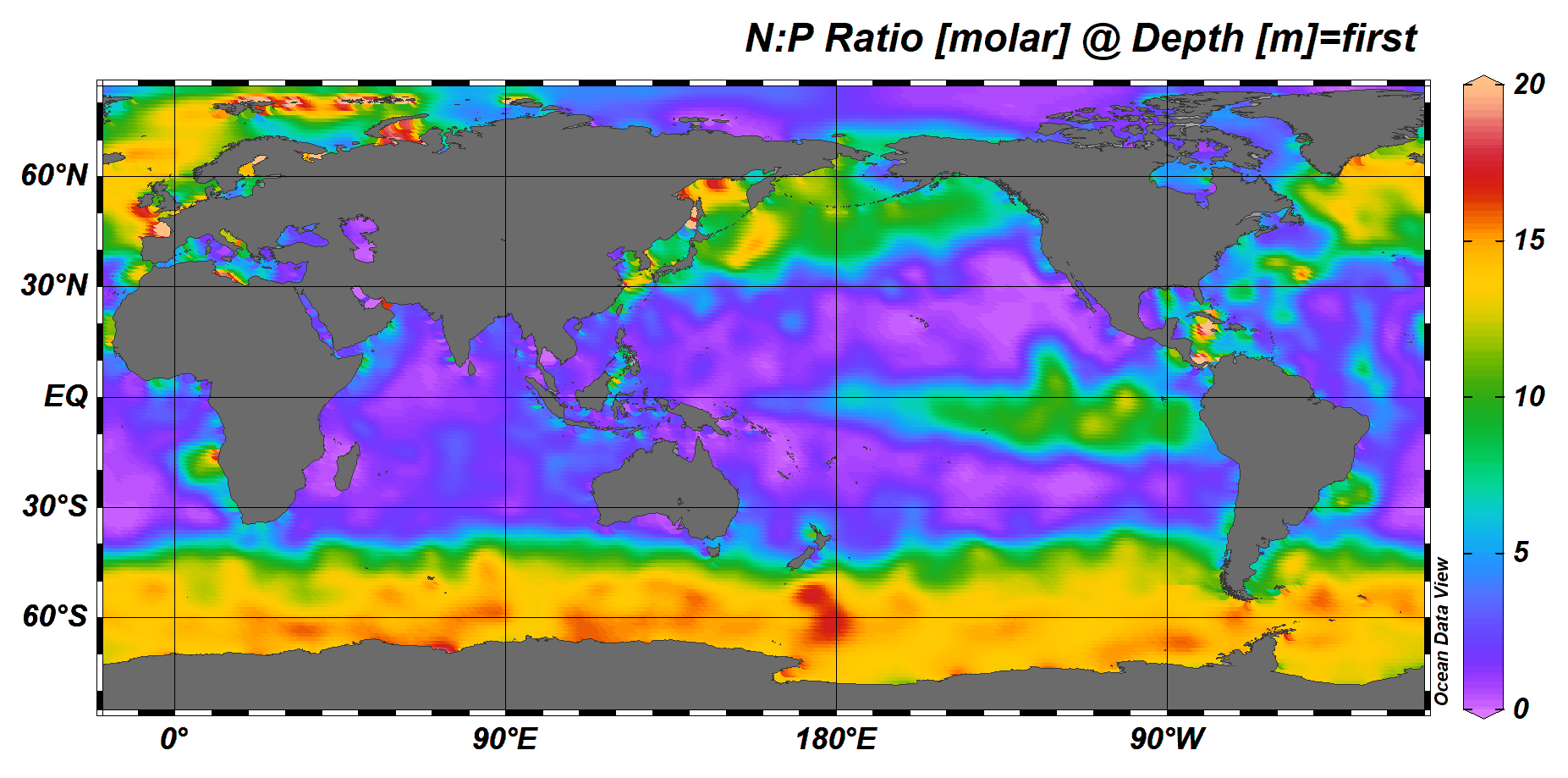 Global nitrogen to phosphorous ratio plotted for the surface ocean. Three main HNLC regions exhibit high N:P ratios, indicating other nutrients may be limiting.